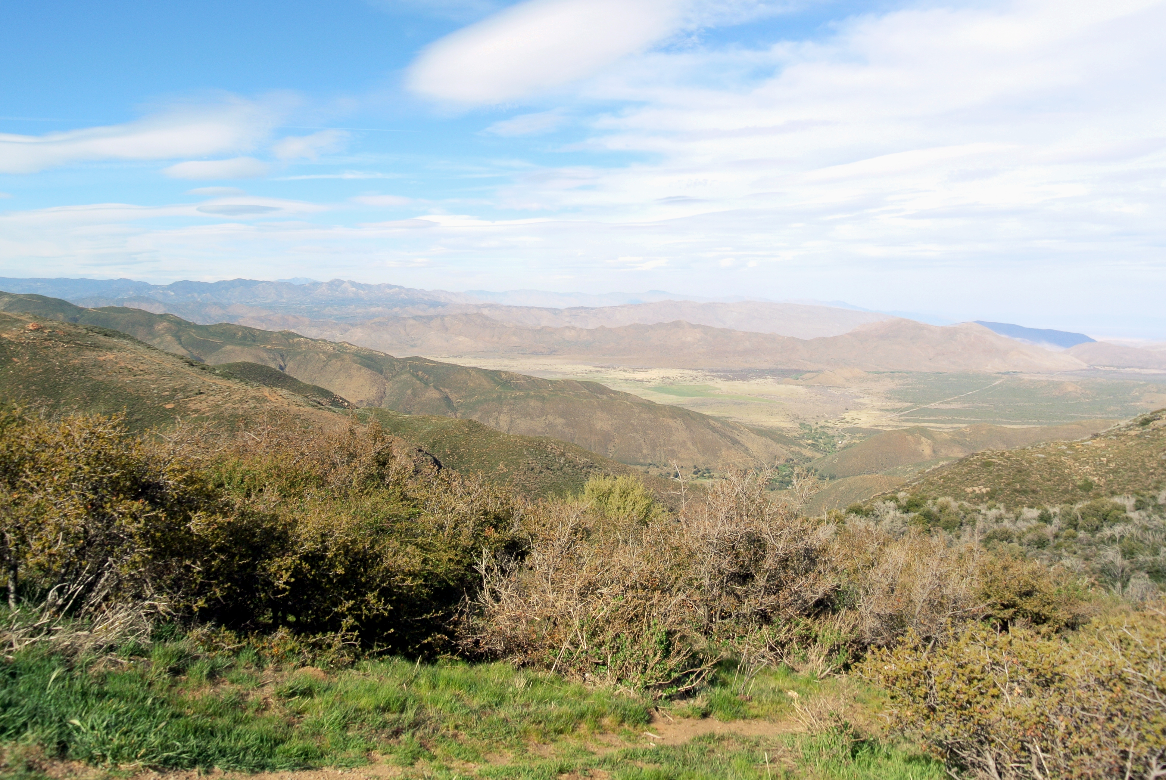 View from Inspiration Point in the Laguna Mountains towards Anza Borrego Desert State Park on the right and Vallecito Mountains on the left. Chaparral in the foreground, Santa Rosa Mountains in the backgorund.